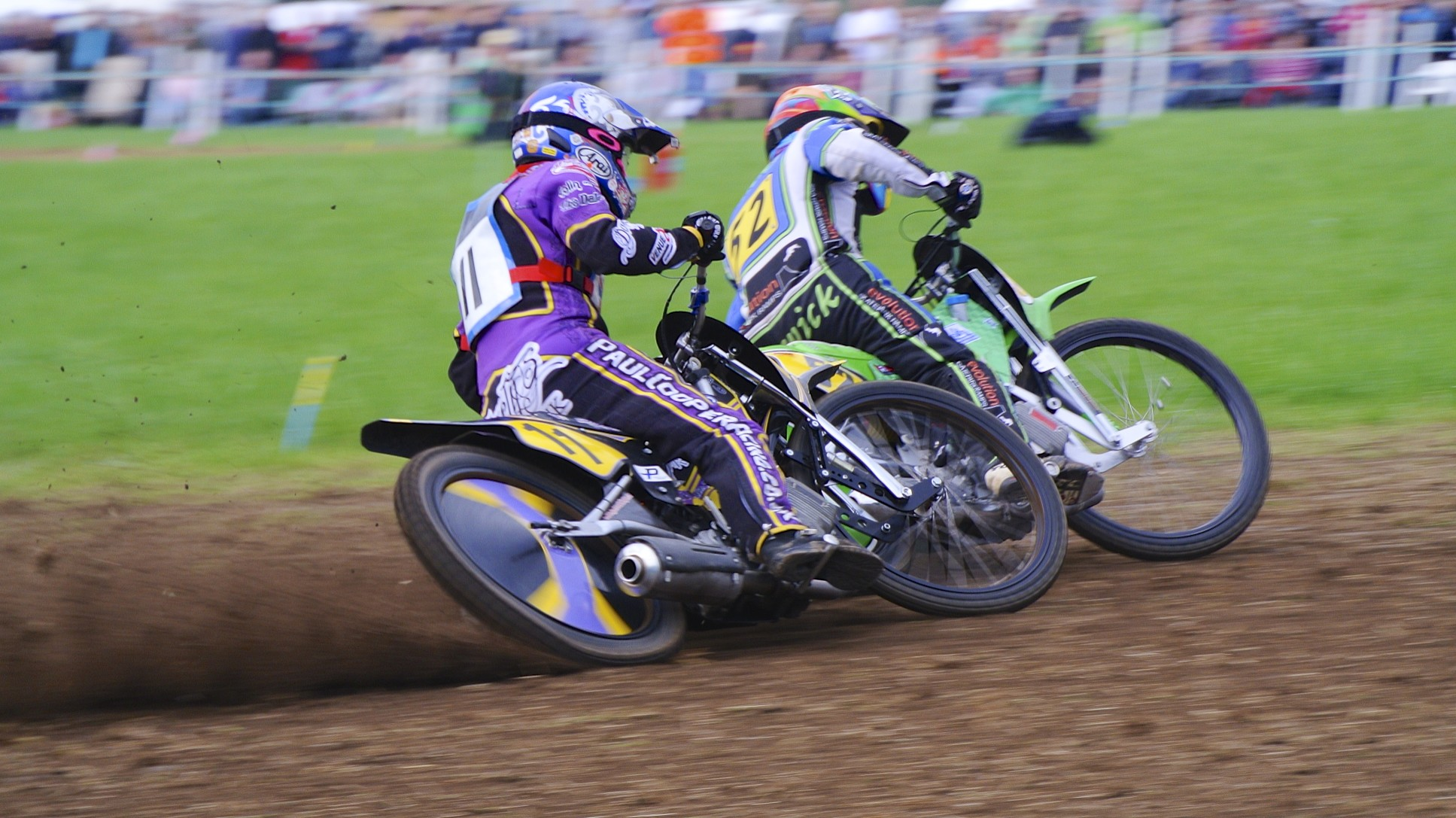 Held at Pilford Farm, Uddens, Wimborne Dorset September 29th 2013